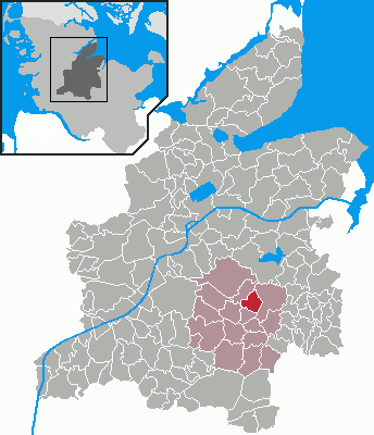 Locator maps of municipalities in Schleswig-Holstein - District Rendsburg-Eckernförde